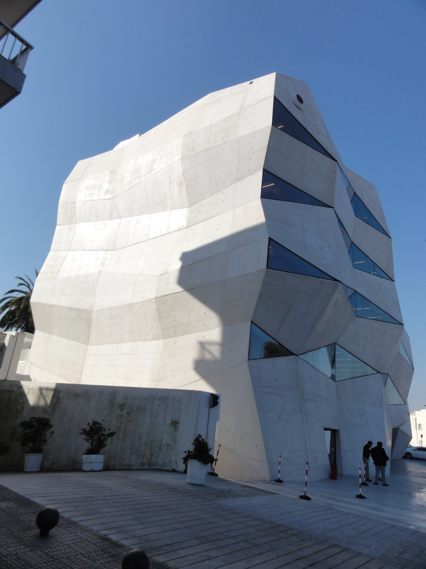 Vodafone building, Porto